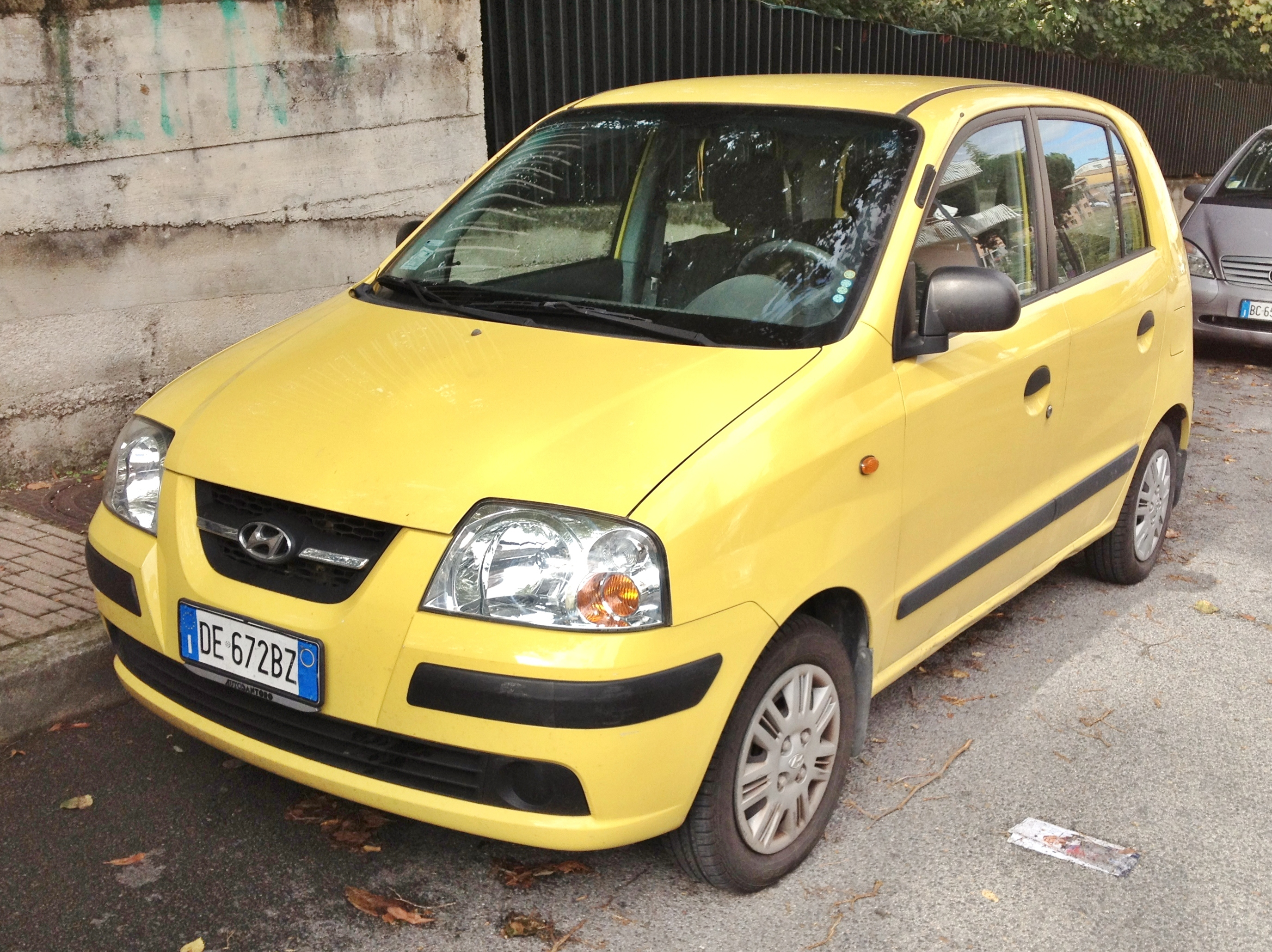 Hyundai Atos Prime facelift